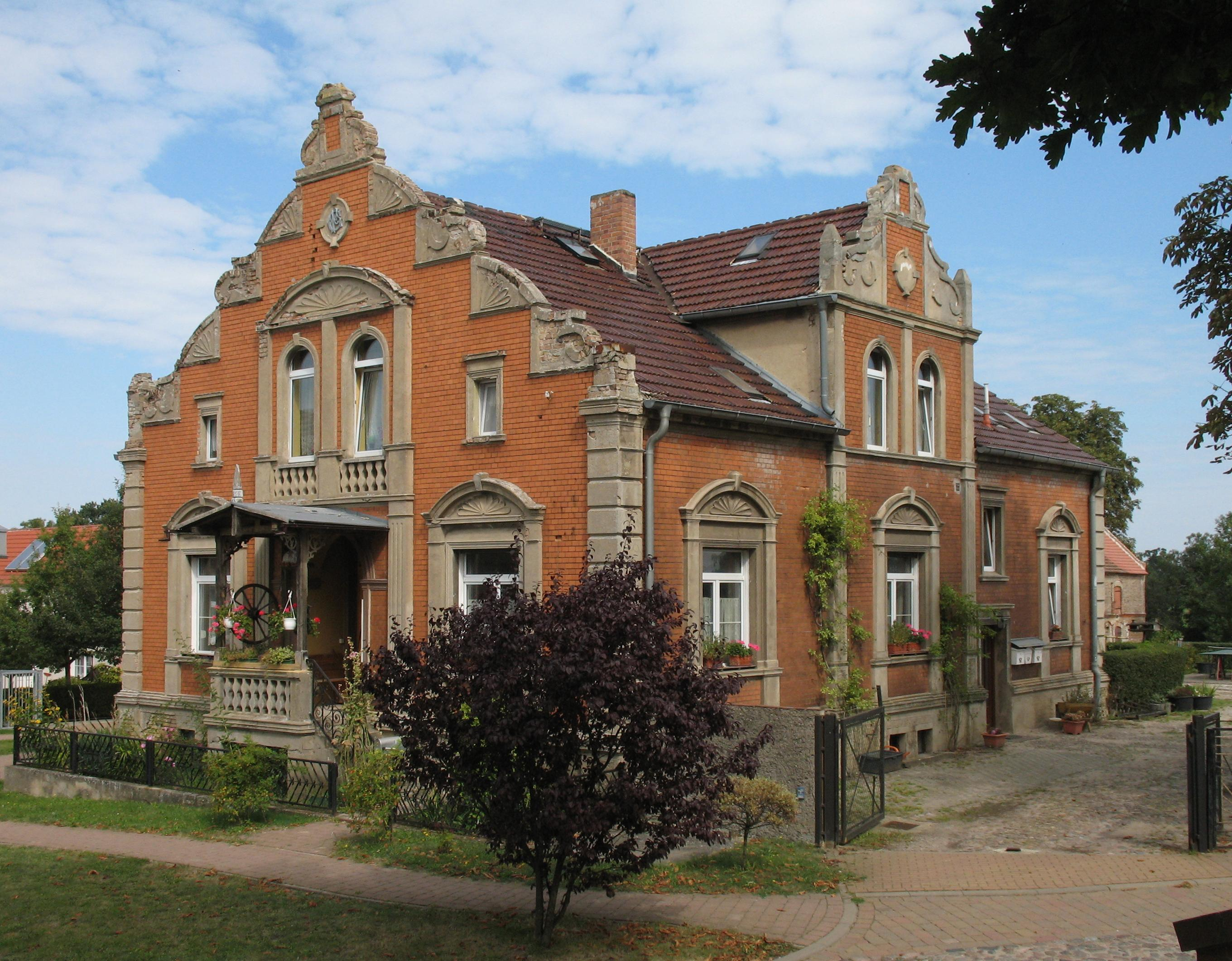 Building in Fehrbellin-Hakenberg in Brandenburg, Germany